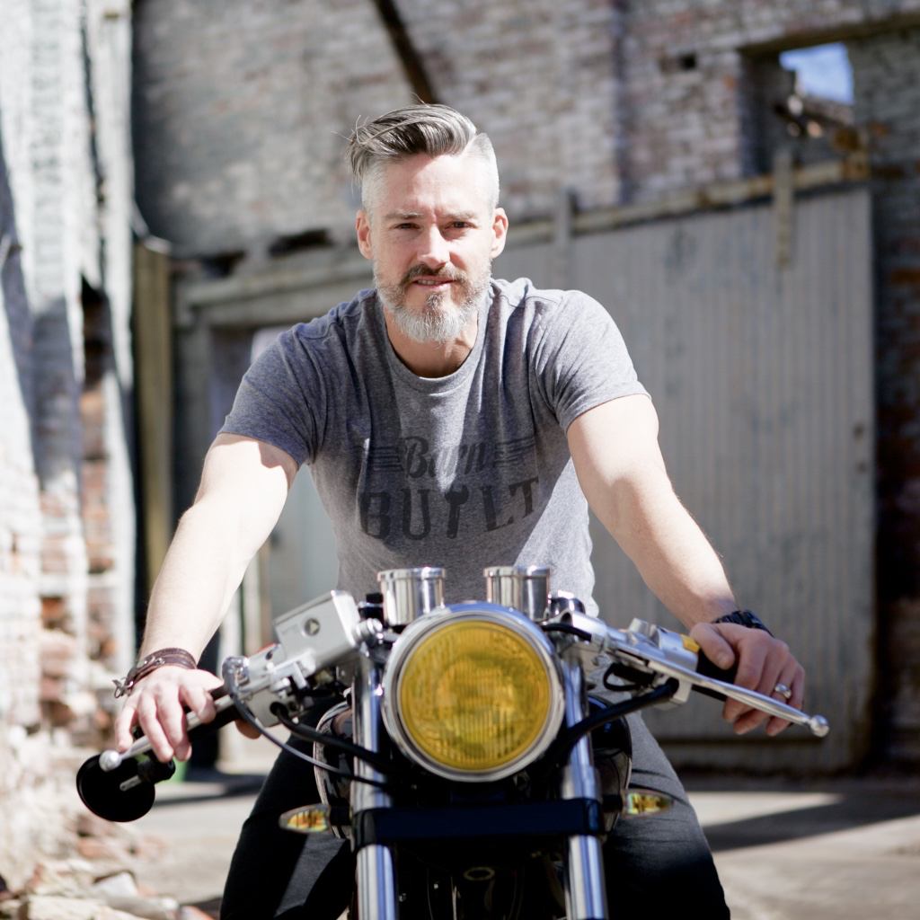 Continuity photo for 2016 photo-shoot